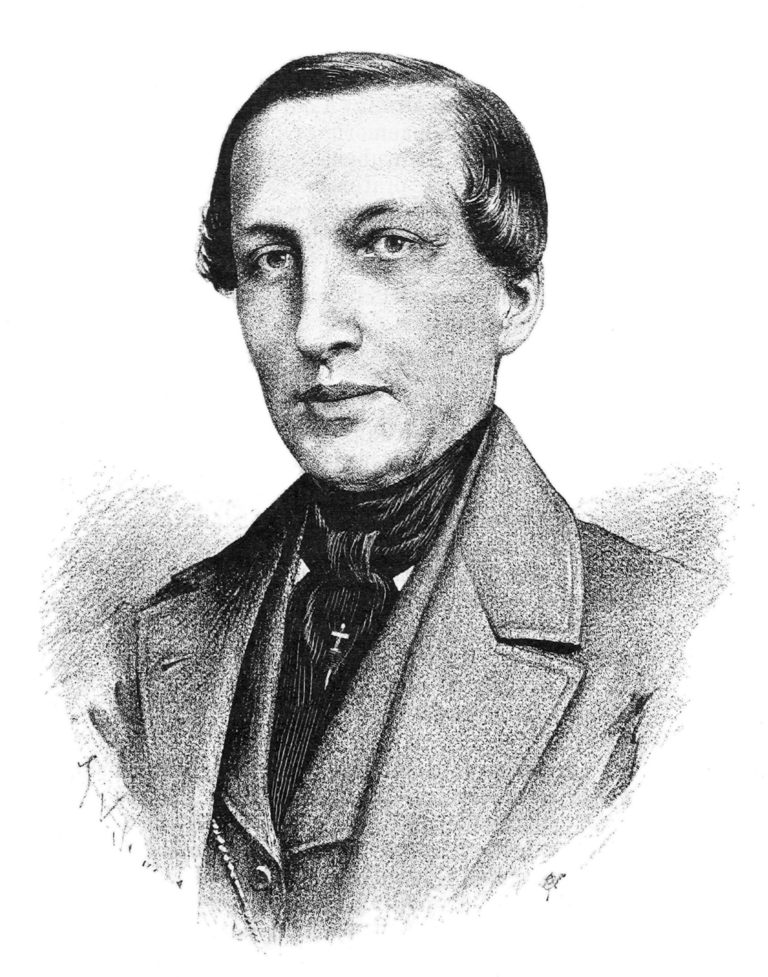 Drawing of Czech physicist and mathematician František Adam Petřina (1799—1855) by Jan Vilímek